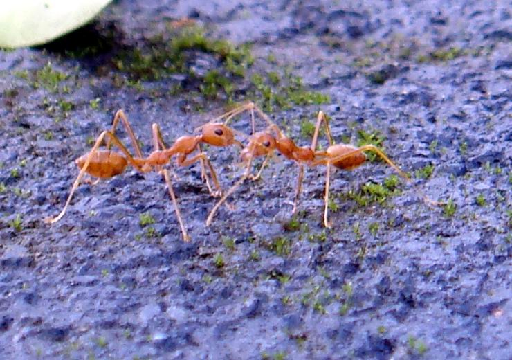 there is communication gap in humans but its always pefect in such insects- without wires fire ants communicating with each other